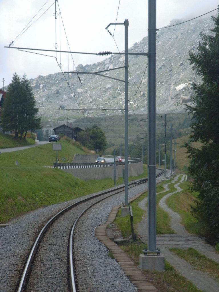 Randa Rockfall